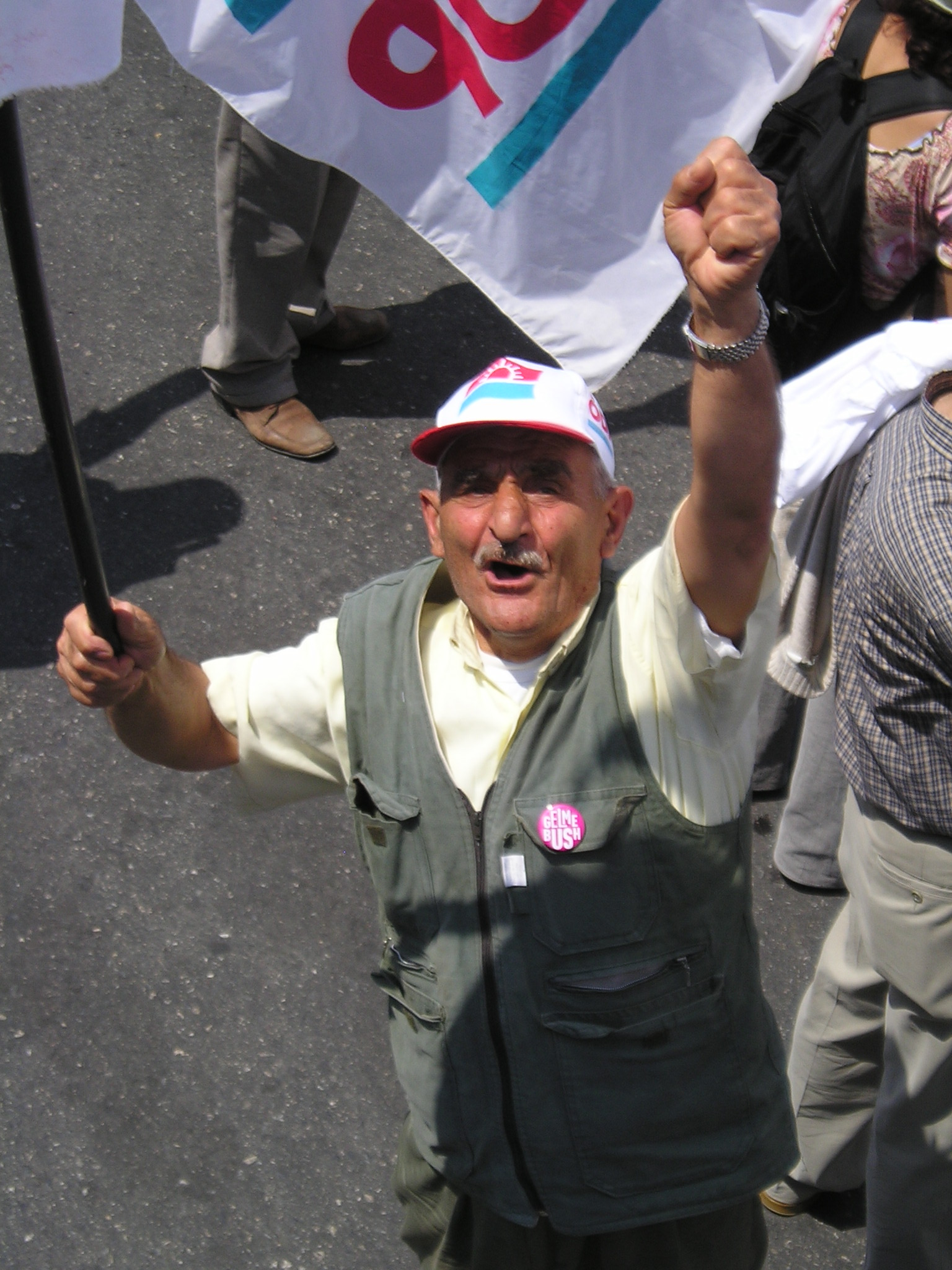 Demonstration against NATO summit. Istanbul, 2004. Photo by Bertil Videt